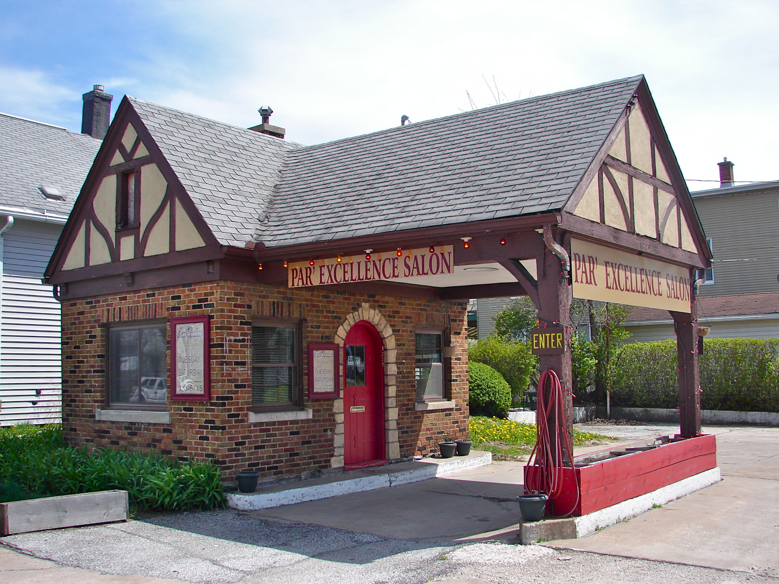 Wolters Filling Station on the NRHP since July 27, 1984. At 1229 Washington St., Davenport, Scott county, Iowa. Small commercial structure in old Northwest Davenport